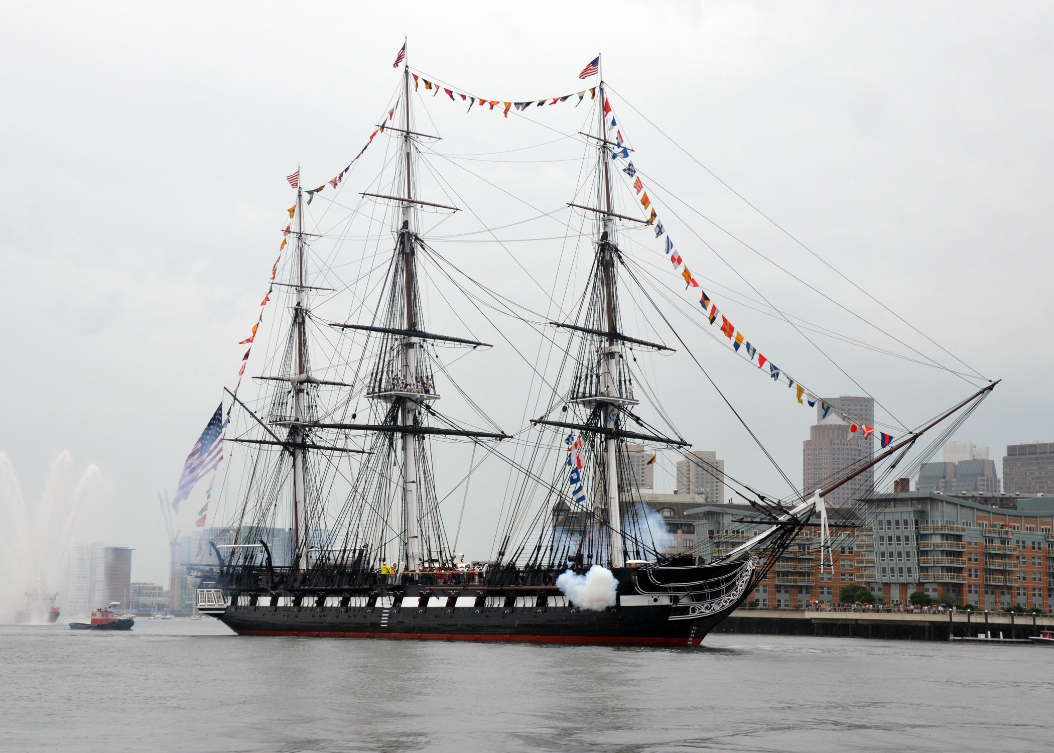 BOSTON (July 4, 2014) USS Constitution fires a 17-gun salute near U.S. Coast Guard Base Boston during the ship's Independence Day underway demonstration in Boston Harbor. Constitution got underway with more than 300 guests to celebrate America's independence. (U.S. Navy photo by Seaman Matthew R. Fairchild/Released) 140704-N-OG138-866